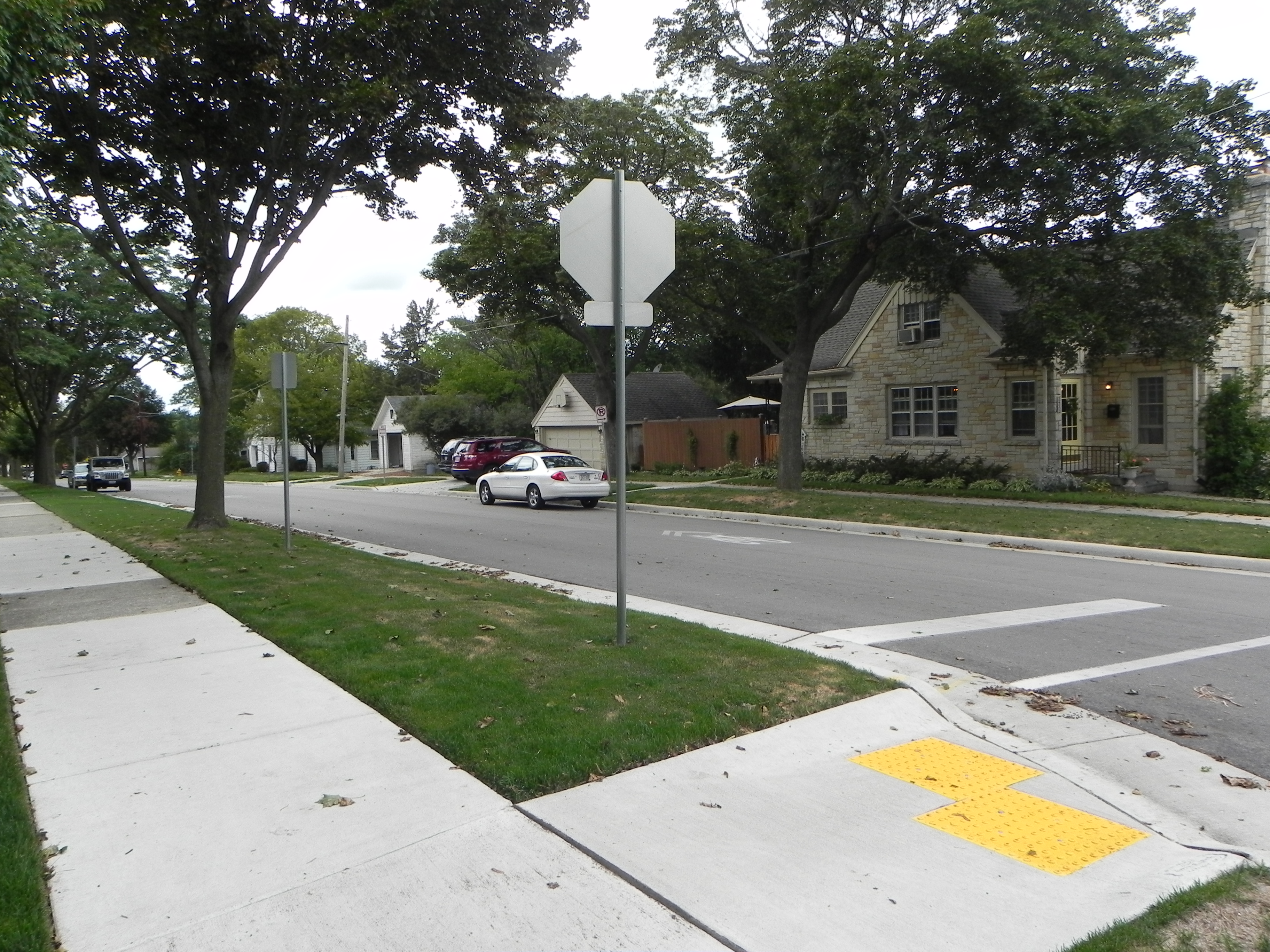 Caples